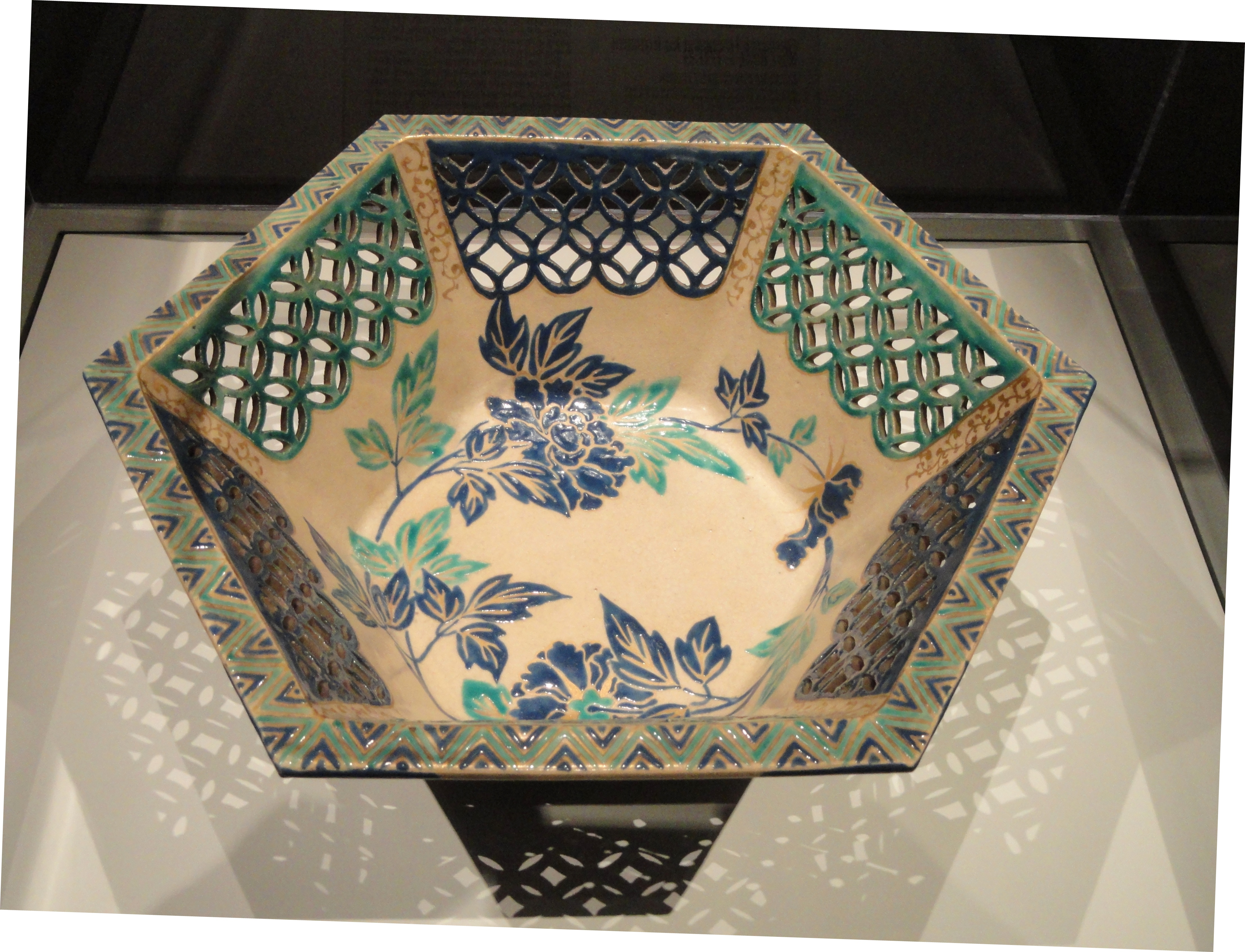 Openwork Hexagonal Ko-Kiyomizu Ware Bowl, c. 1731-1752, Japan, artist unknown, stoneware with overglaze enamels. Exhibit in the Art Institute of Chicago, Chicago, Illinois, USA. This artwork is in the public domain because the artist died more than 70 years ago.